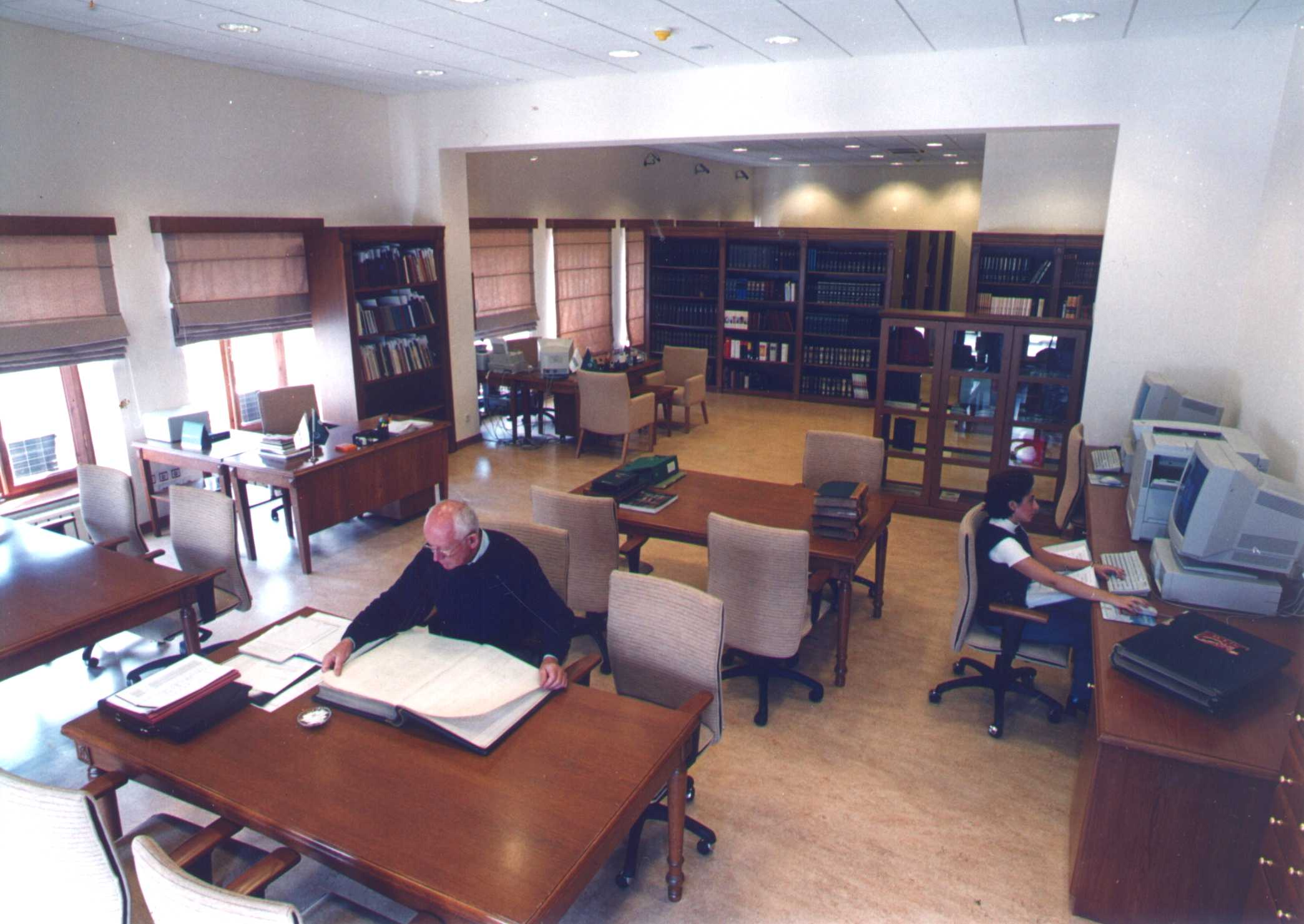 Ottoman Bank Archives and Research Centre Library